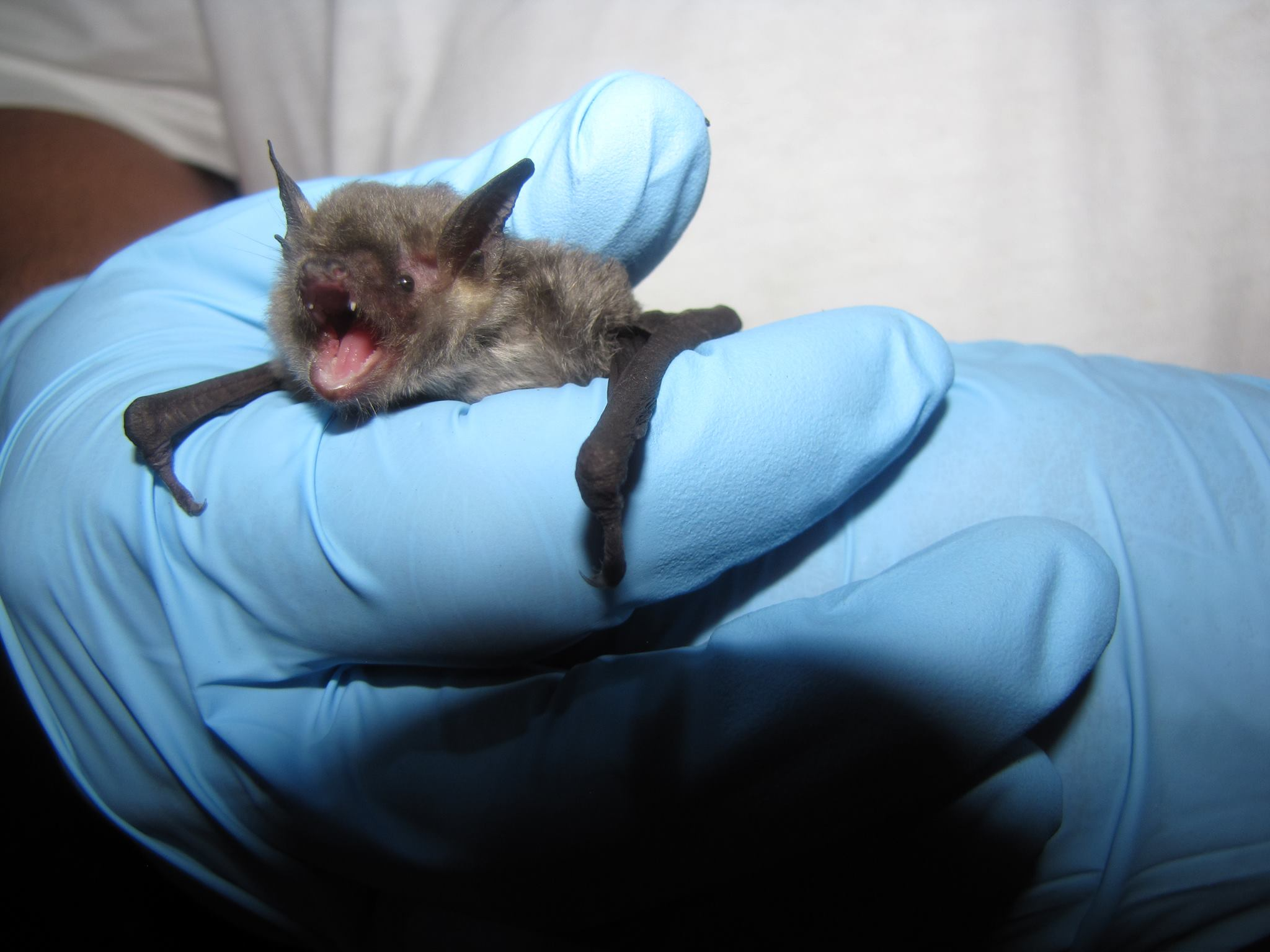 This bat was caught in a mist net in Oklahoma during the Southeastern Bat Diversity Network bat blitz in 2013.